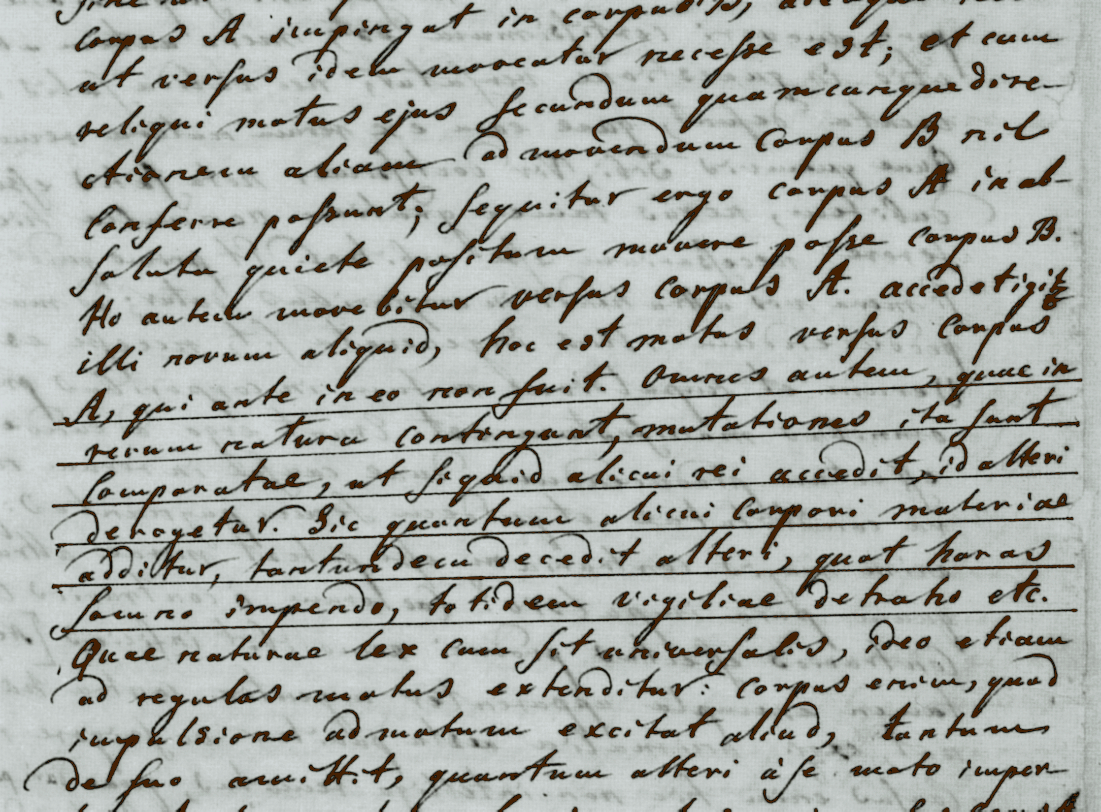 Fragment of M. Lomonosov's letter to L. Eiler. July 5 1748